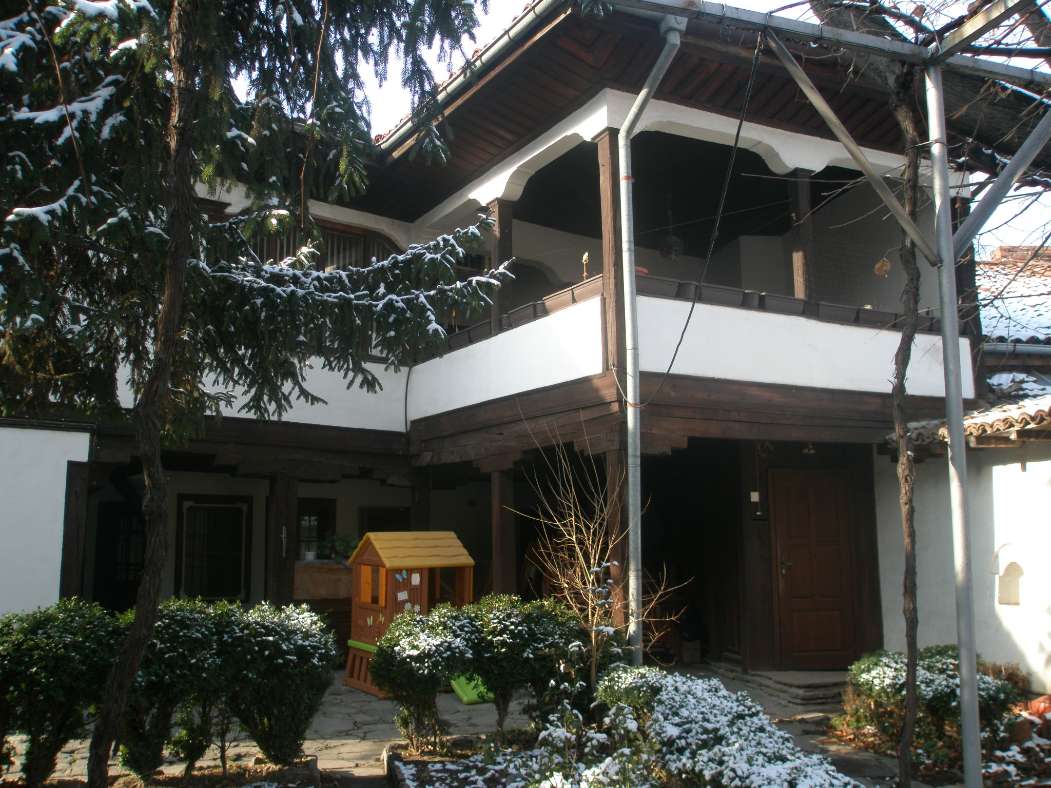 дворът